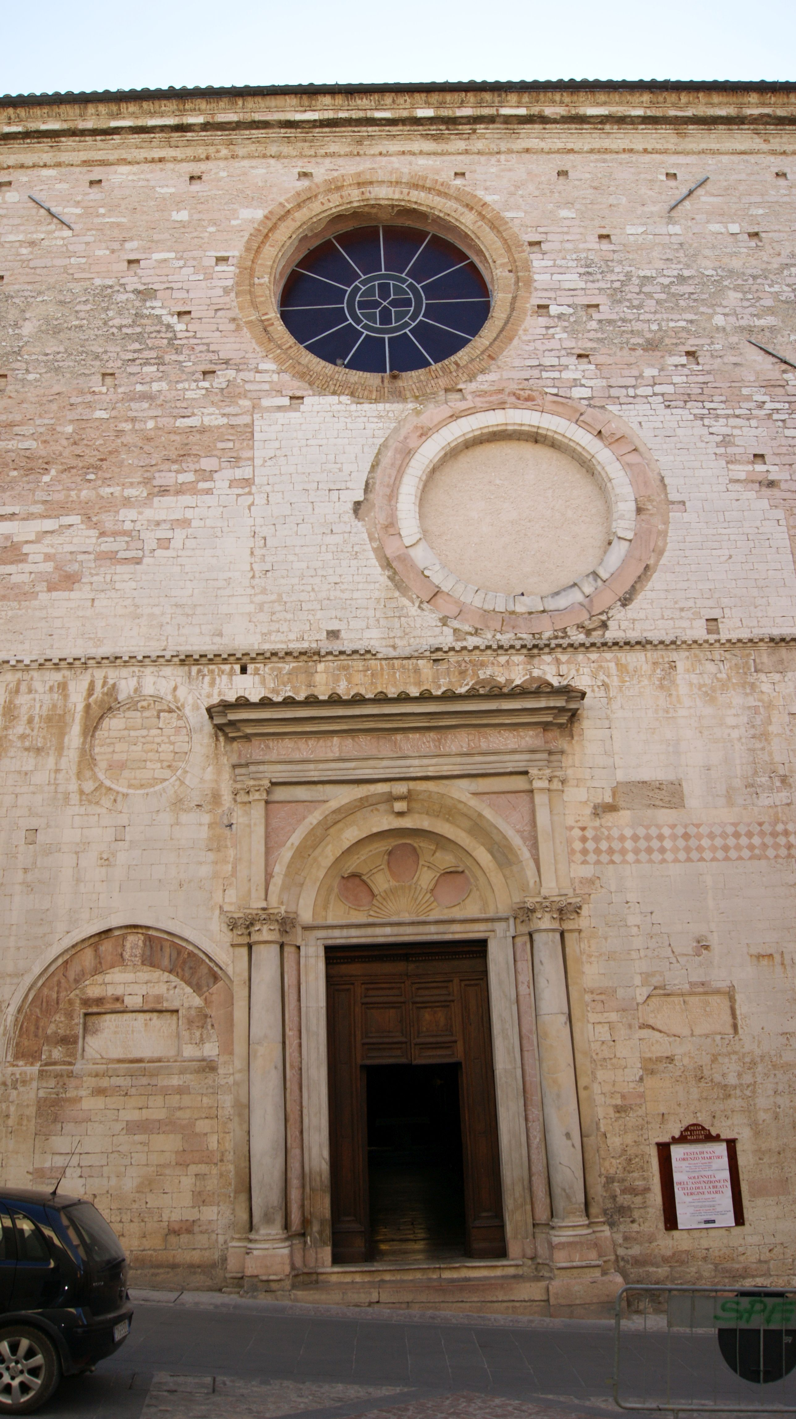 Spello in the province of Perugia in Umbria, Italy. Church San Lorenzo.